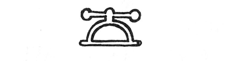 Drawing silver makers' mark Wilkens & Söhne, silver manufacturer in Bremen, Germany, ca. 1880